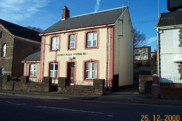 Caerau. The old police station at Caerau.